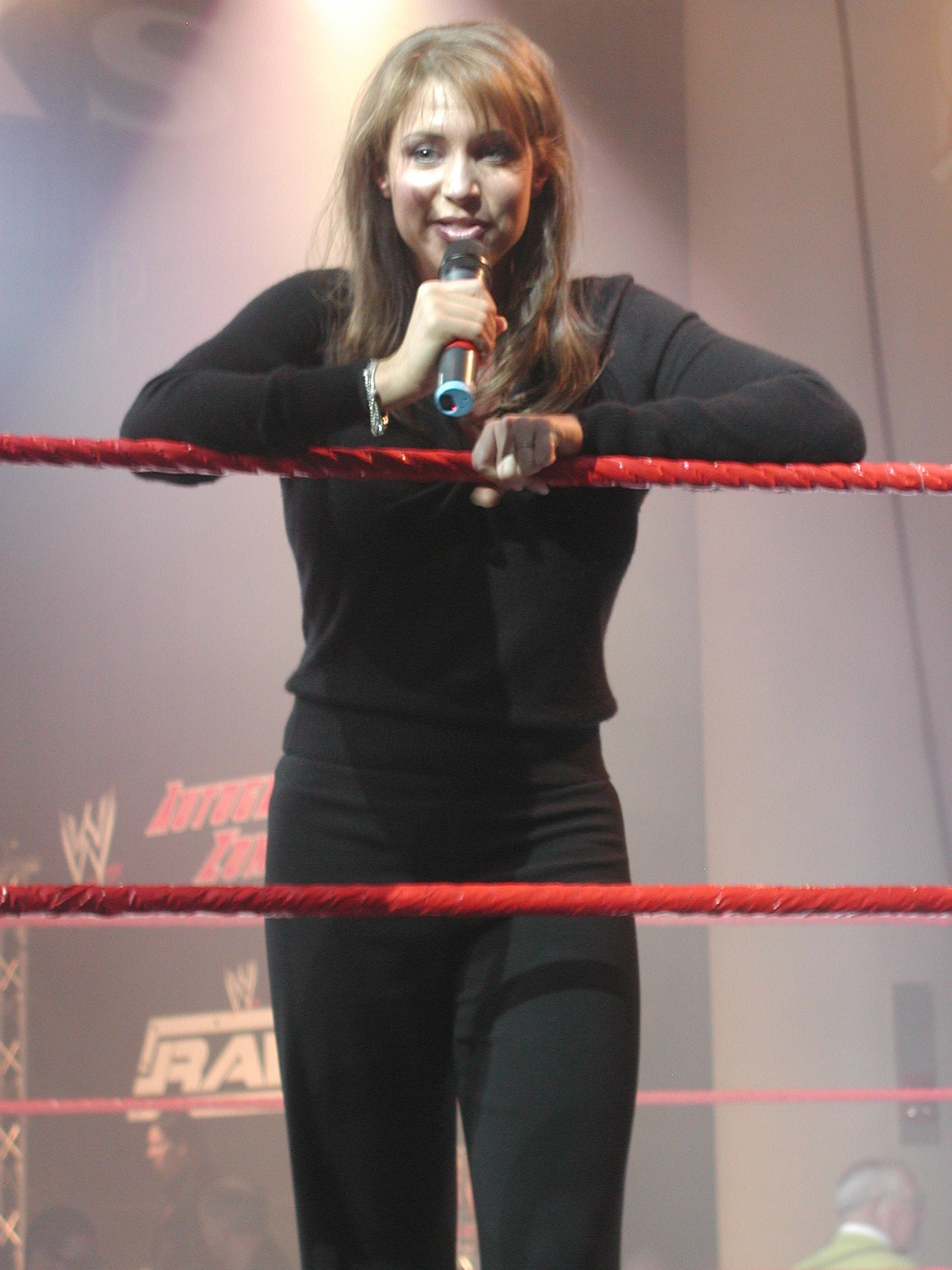 Stephanie McMahon at WWE Fan Axxess. Seahawks Stadium, Seattle